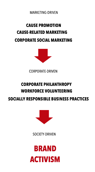 Chart representing the development of Brand activism as a society-driven concept, on the ground of cause-related marketing and CSR, and socially responsible business practices.